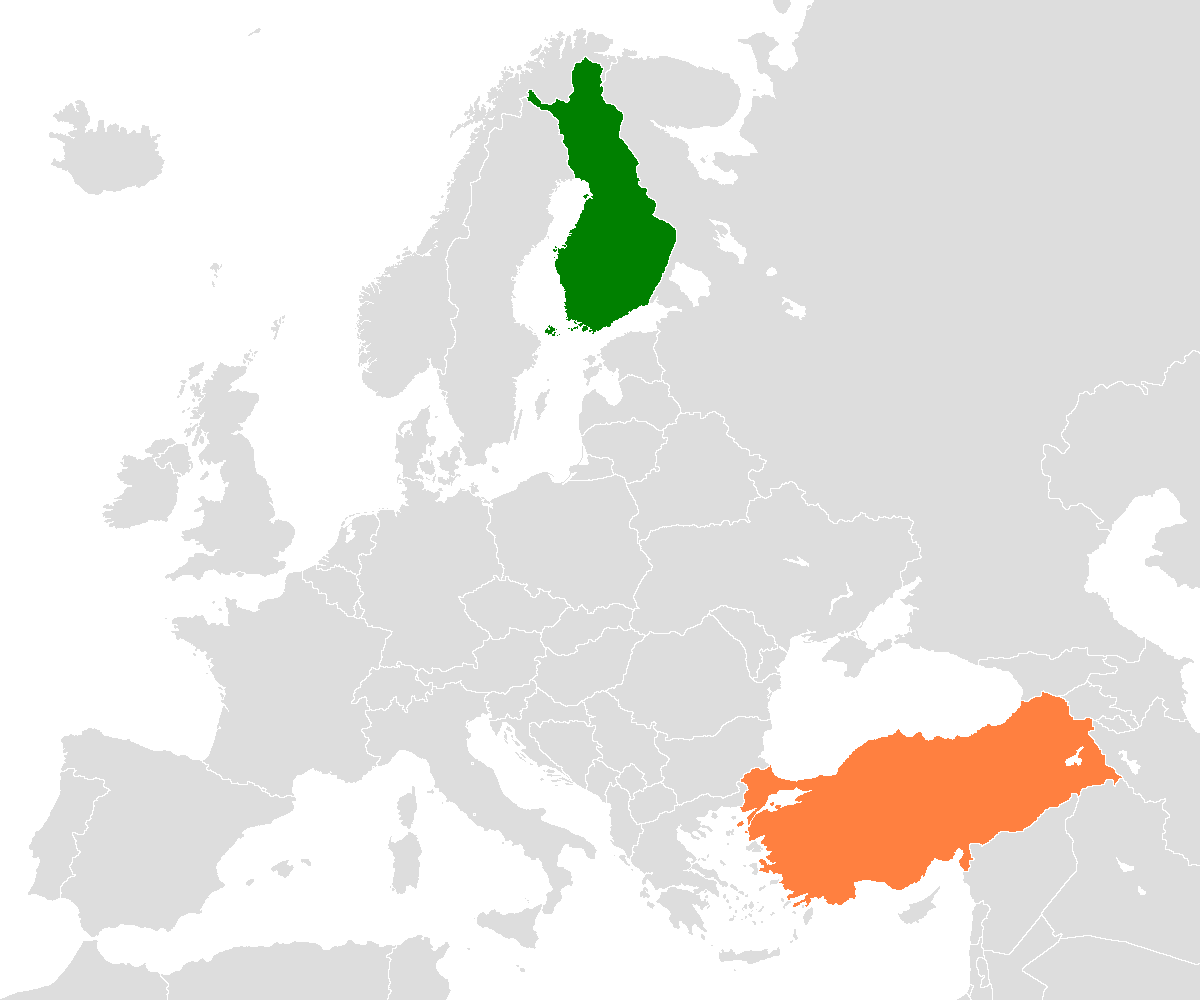 Location of Finland and Turkey